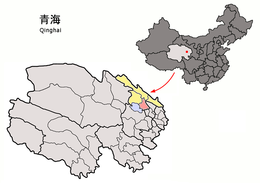 Location of Haiyan County (pink) and Haibei Prefecture (yellow) within Qinghai province of China Map drawn in september 2007 using various sources, mainly : Qinghai province administrative regions GIS data: 1:1M, County level, 1990 Qinghai Counties map from "Plateau Perspectives" (the limits of some county-level subdivisions may not be accurate)